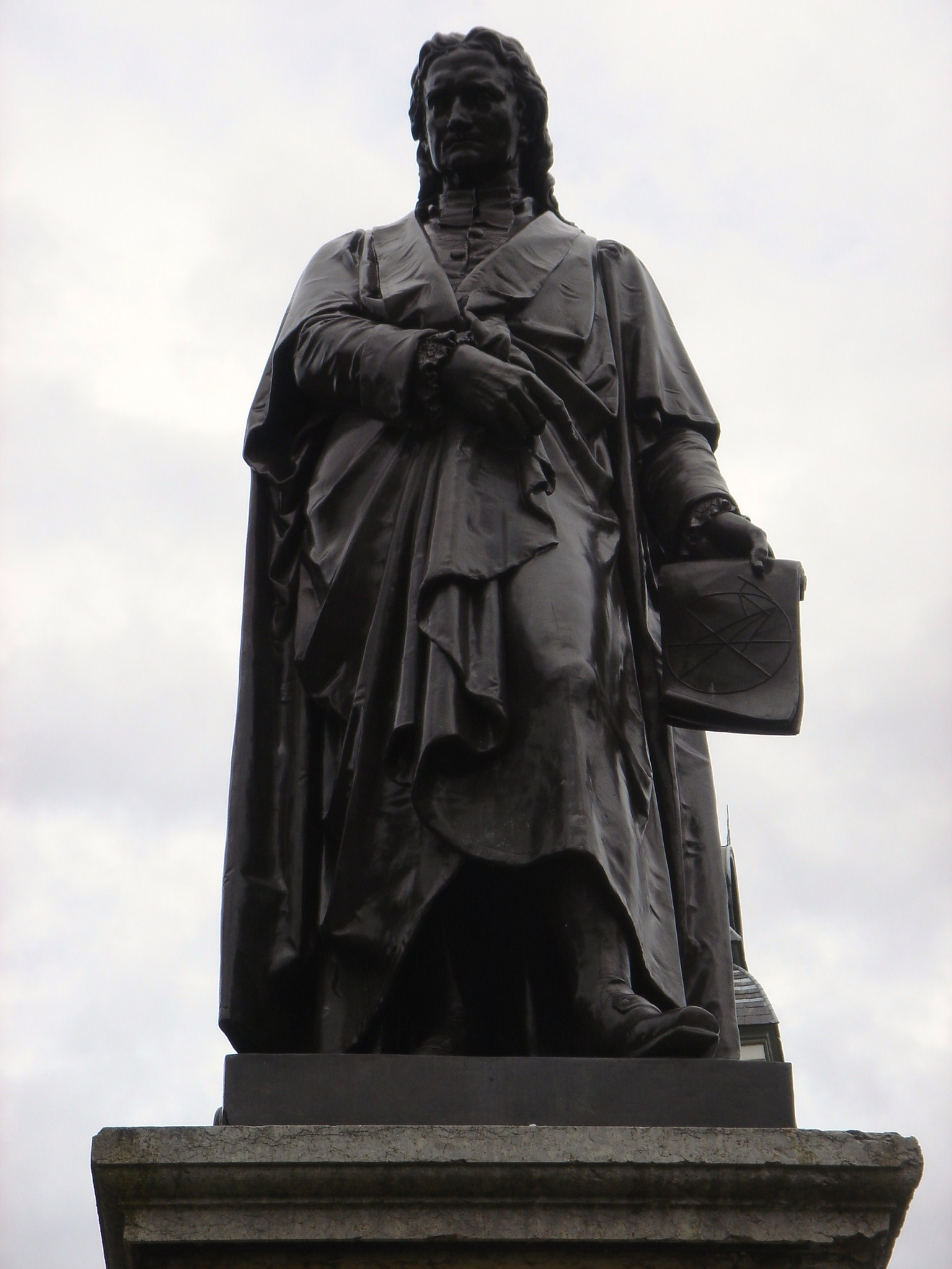 Sir Isaac Newton (1642–1727) by William Theed (1804–1891), 1858, bronze; St Peter's Hill, Grantham. View from the front.